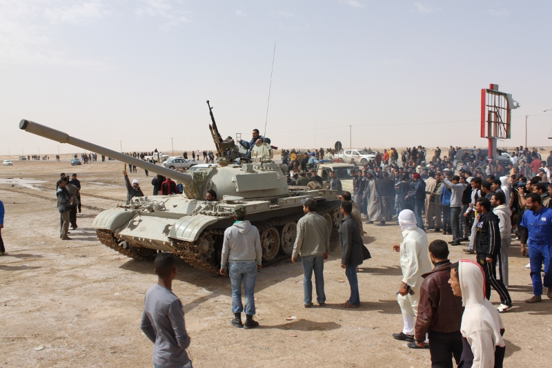 Armed rebels and civilian onlookers gathered at a main gateway into the eastern city of Ajdabiya to cheer on fighters heading onward to the fighting. At one point, rebels drove a tank back from the front, received loud cheers, left, and returned again with more people riding on top.